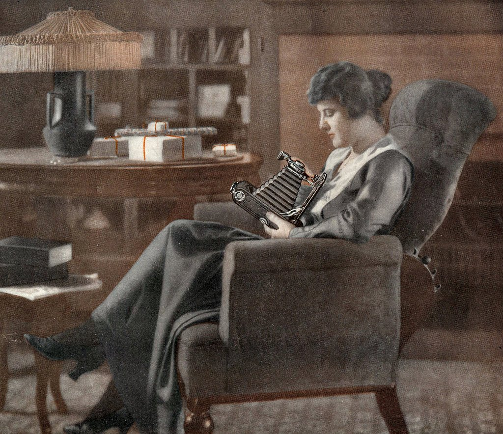 Kodak ran this on the back cover of the November 25, 1916 Country Gentleman. The photo apears to have been produced in a sudio, probably at Kodak in Rochester and the camera retouched to make it stand out. I like the muted color and the ineresting chair.